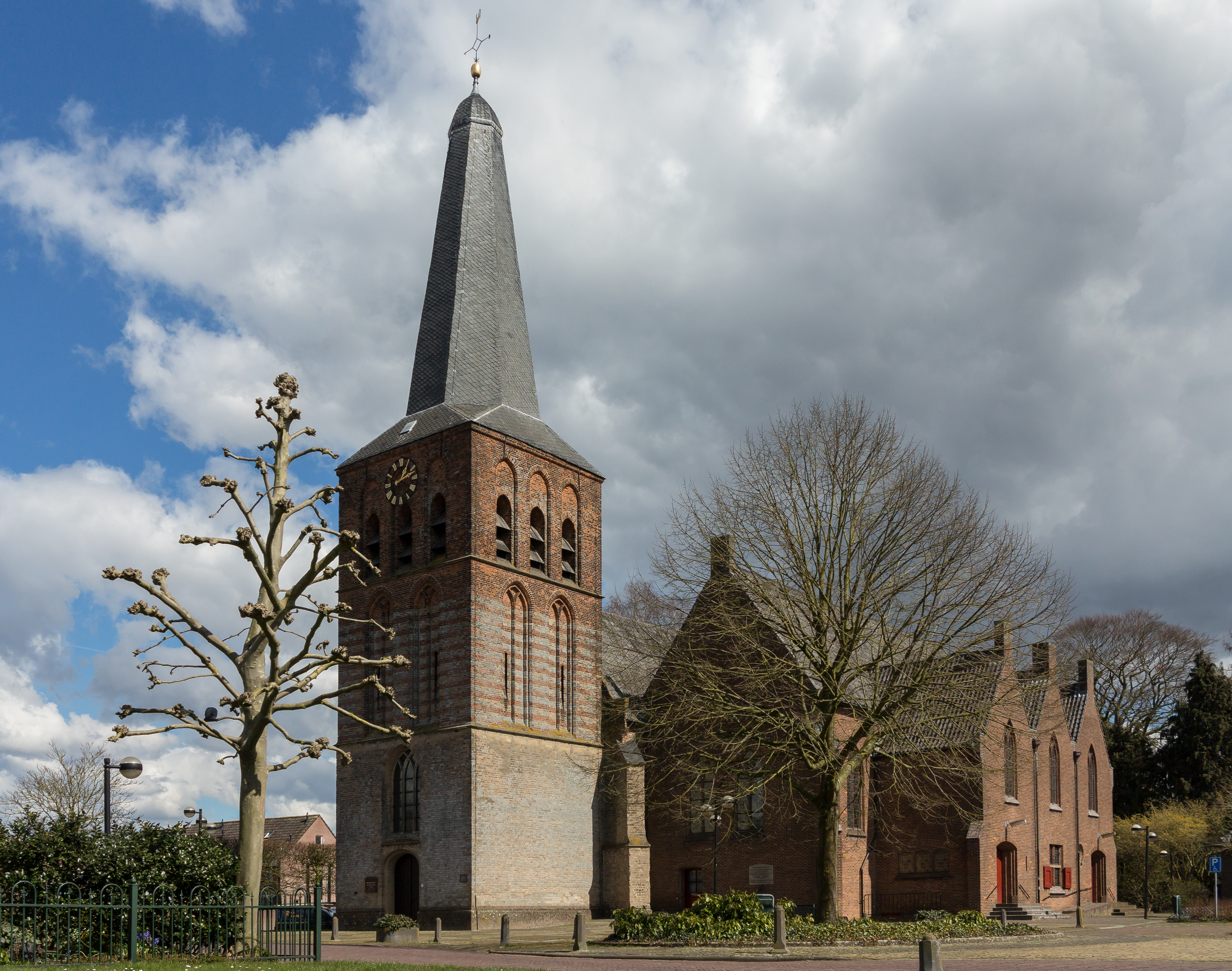 Brummen, church: de Oude of Sint Pancratiuskerk